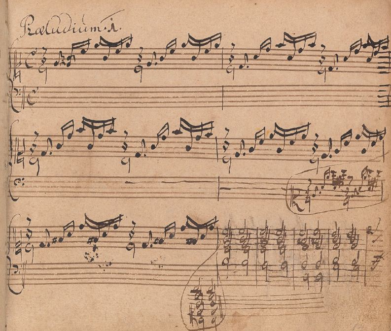 Early version of Prelude No. 1 in C major from The Well-Tempered Clavier, Volume 1, by Johann Sebastian Bach. This version is from the Klavierbüchlein für Wilhelm Friedemann Bach.